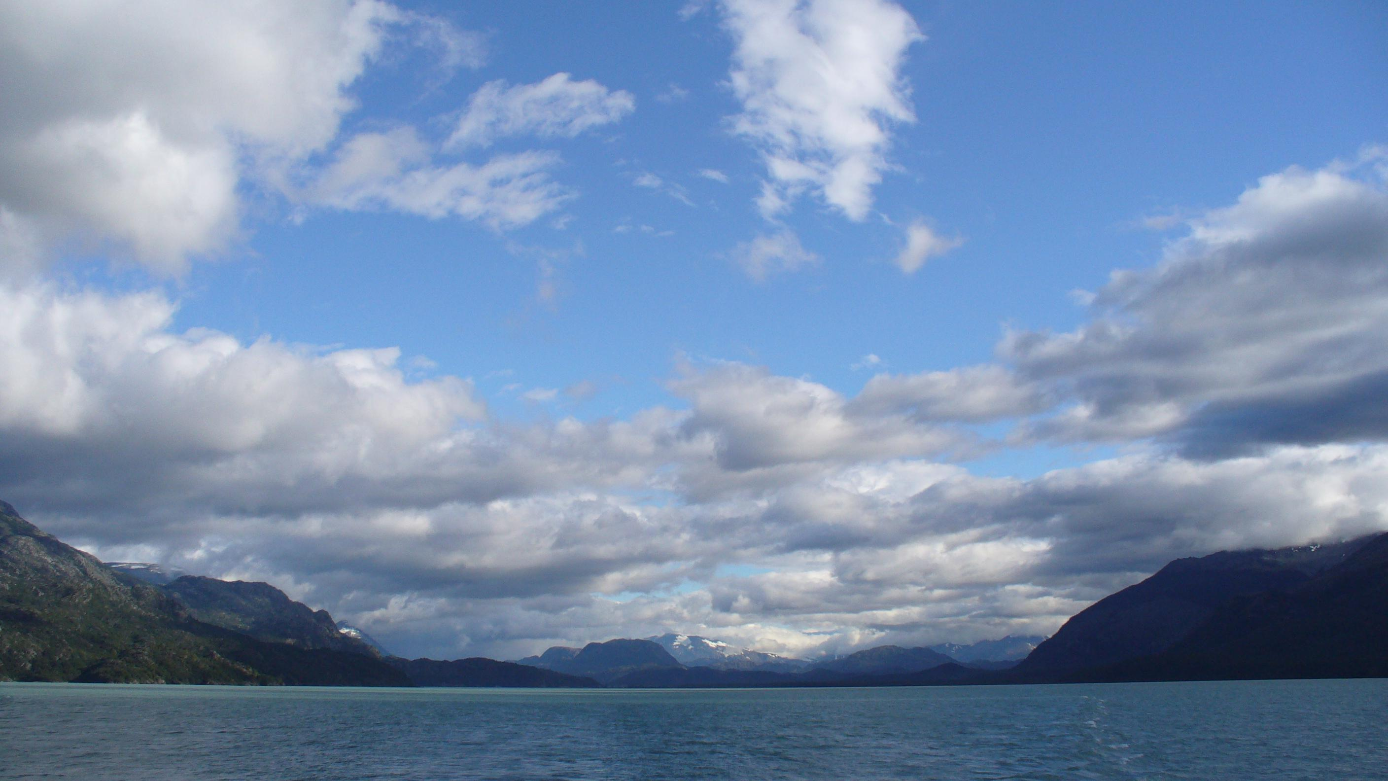 Lago O'Higgins, Chile